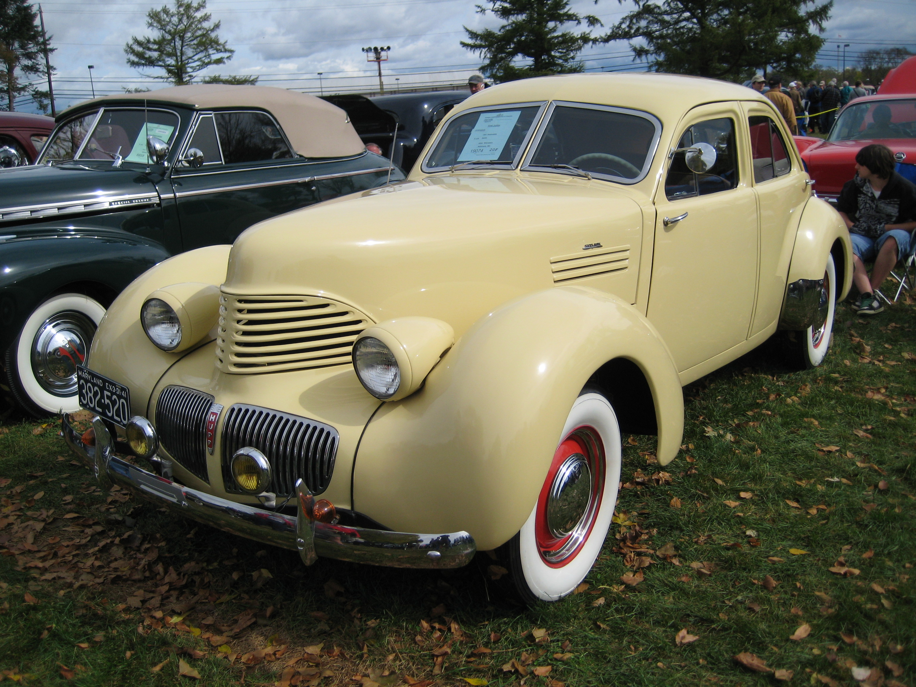 1941 Hupmobile Skylark AACA Eastern Region Fall Meet, Hershey, Pennsylvania, October 2009